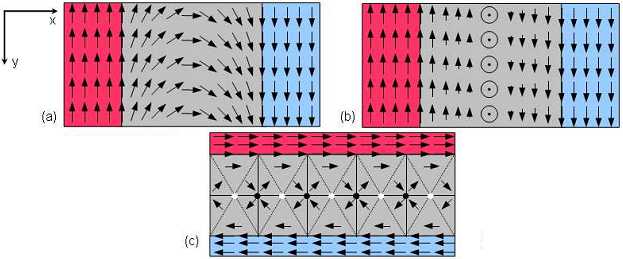 The magnetic moments configuration in three types of domain wall: (a) Néel-type, (b) Bloch-type and (c) cross-tie walls.